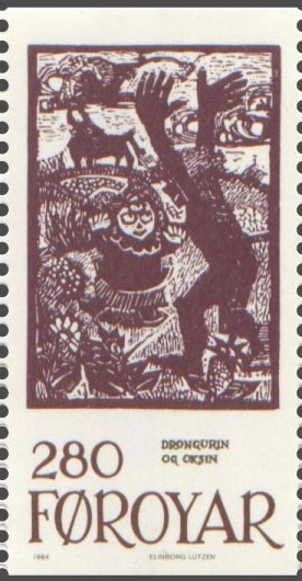 Fairy tales: The Boy and the Ox. Stamp FR 104 of the Faroe Islands.